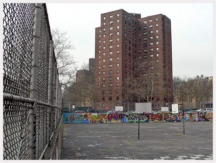 The George Washington Carver Houses, a public housing development built by the New York City Housing Authority in 1958.